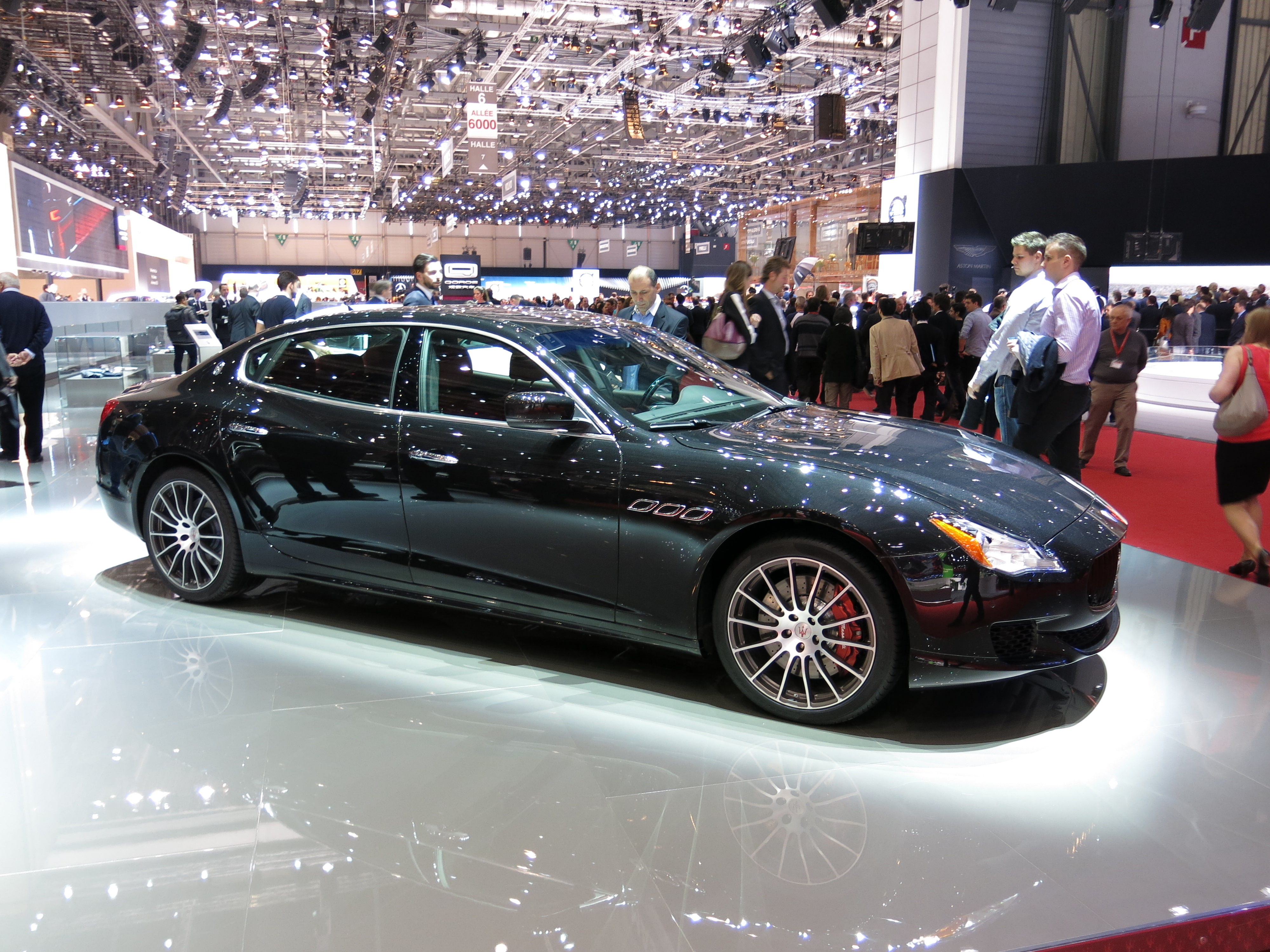 Geneva Motor Show 2015 (photo taken on the first press day)